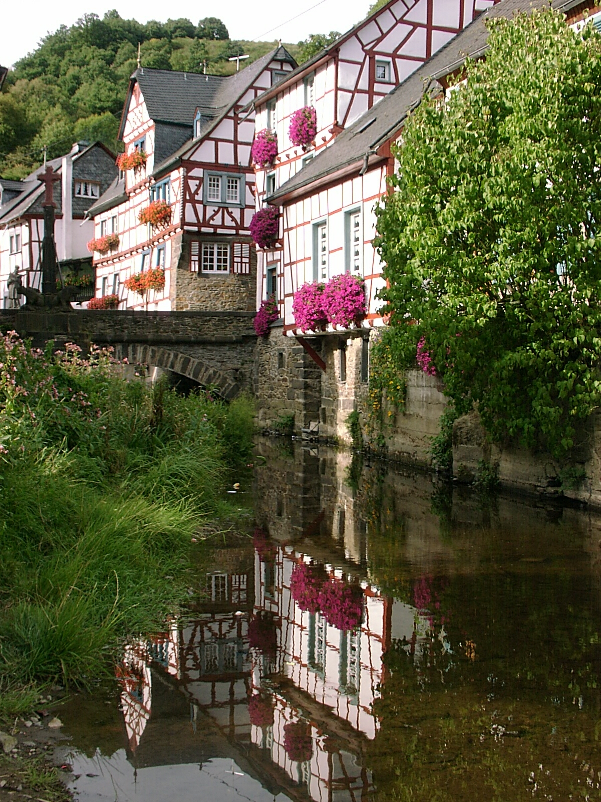 Timber framed houses along the Elzbach in Monreal, Germany